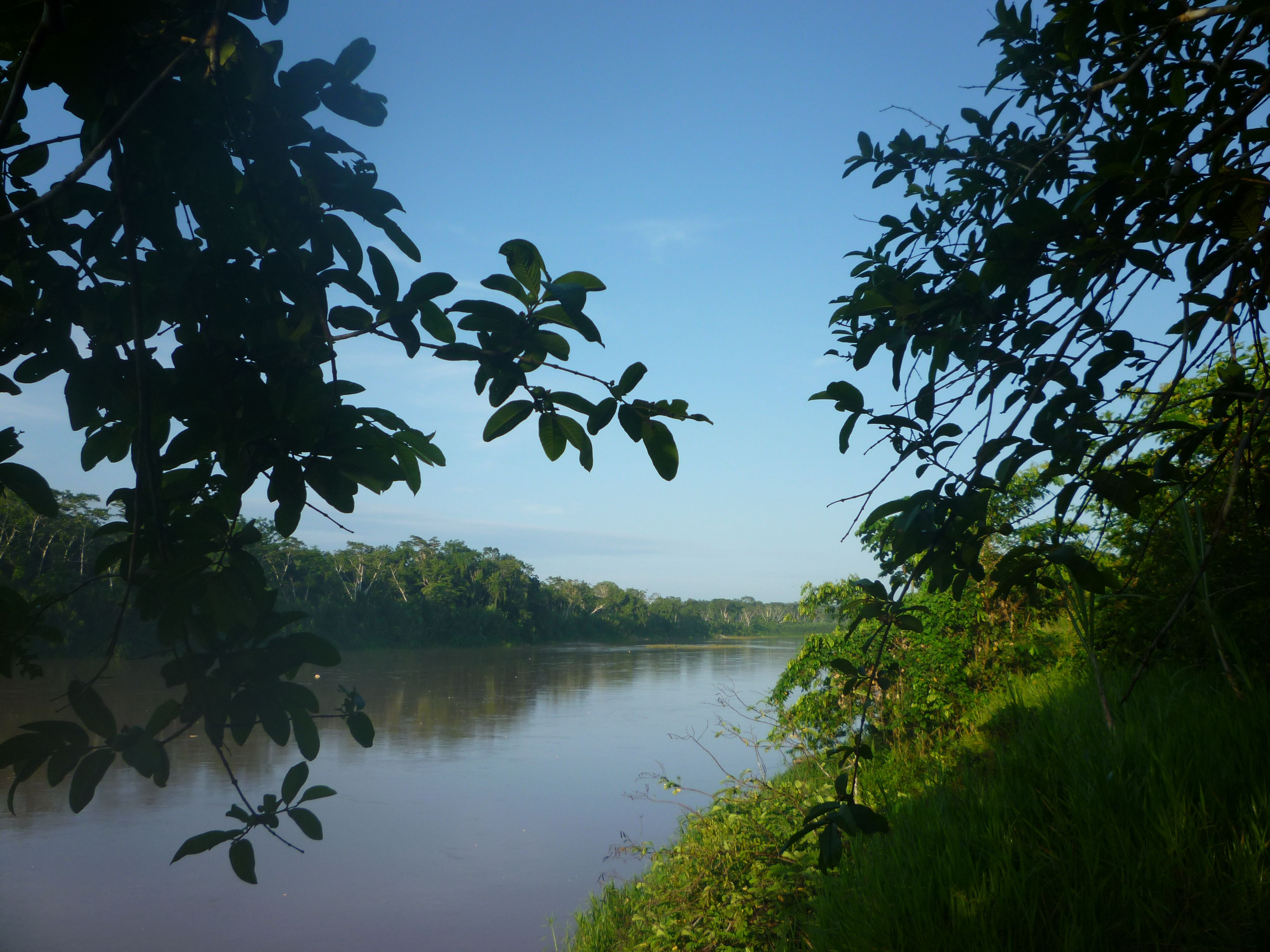 Picture of the Purus River in Peru.